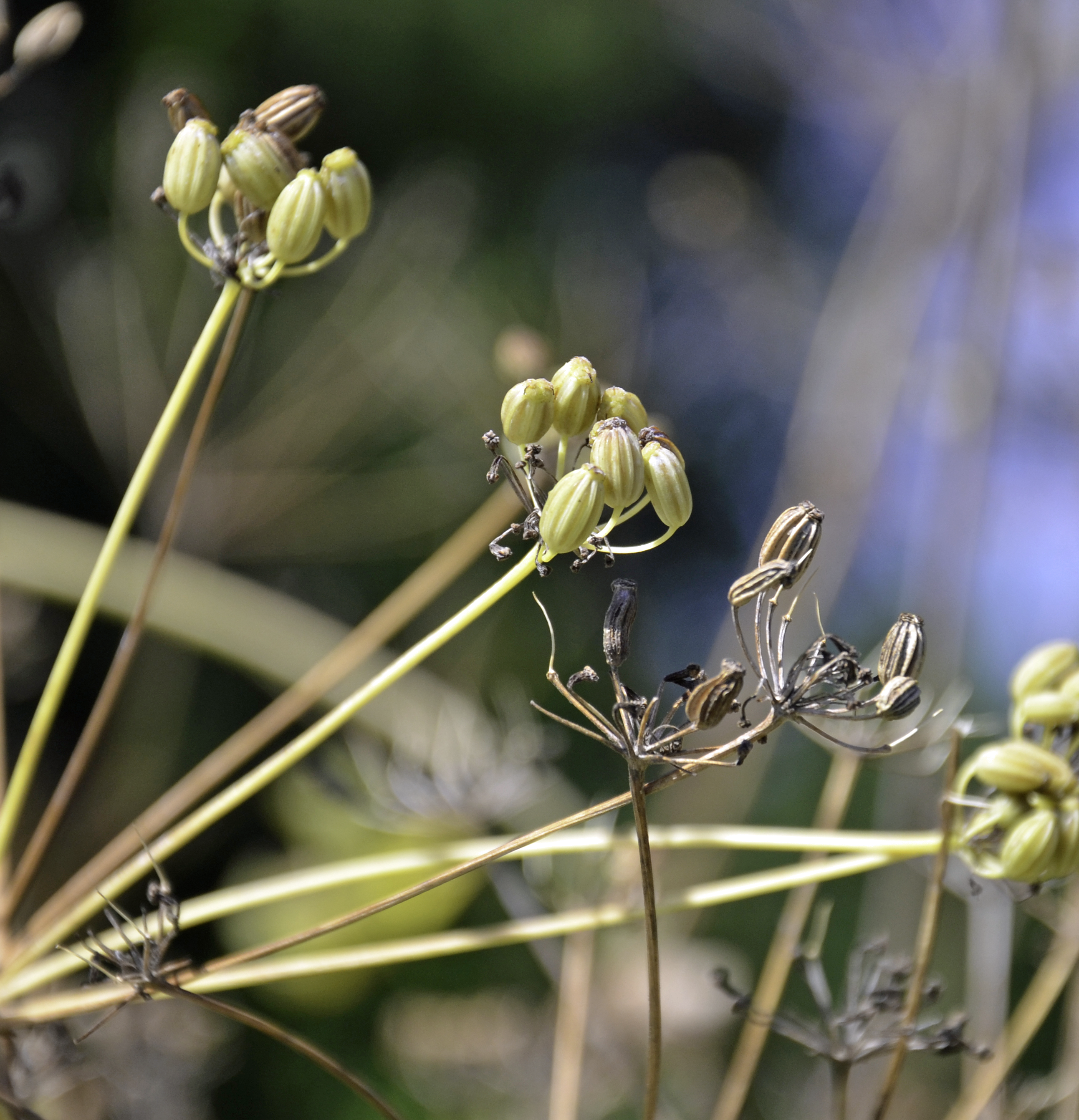 Species: Laser trilobum. Common name: Horse Caraway, Gladich. Distribution: Central and Eastern Europe.